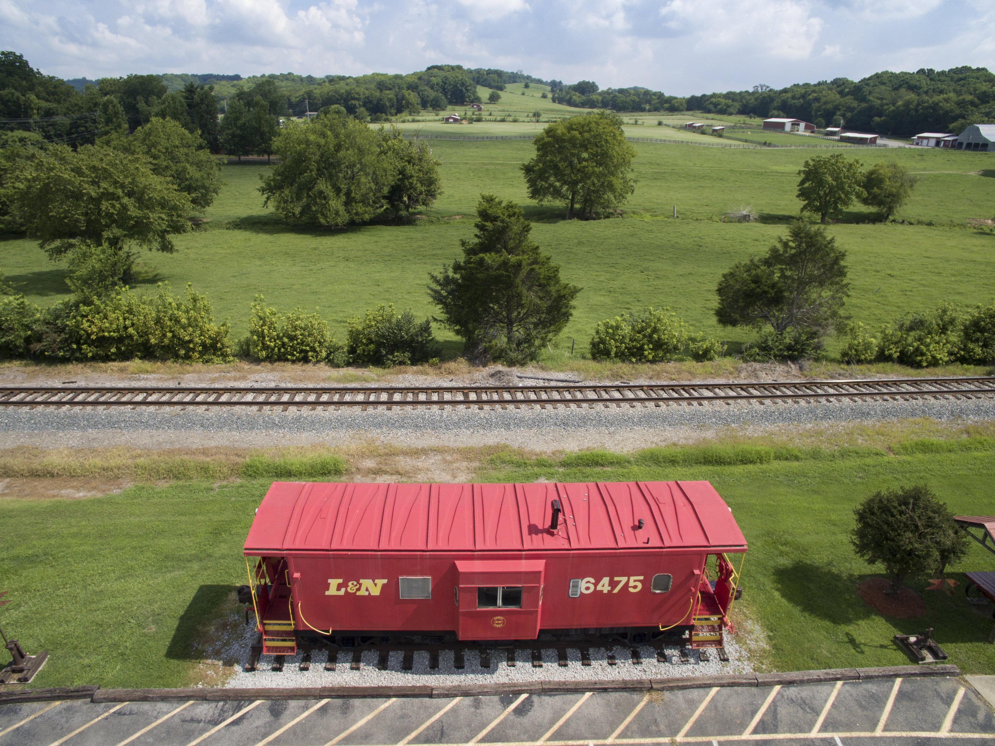 Thompson's Station Caboose and Preservation Park